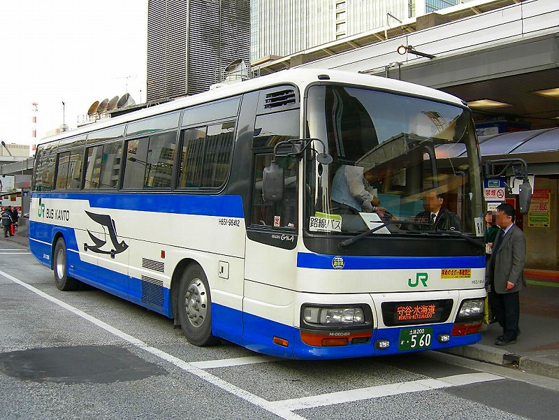 JR bus Kanto Highwaybus "Tokyo-Moriya,Mitsukaido"(Ibaraki,Japan)